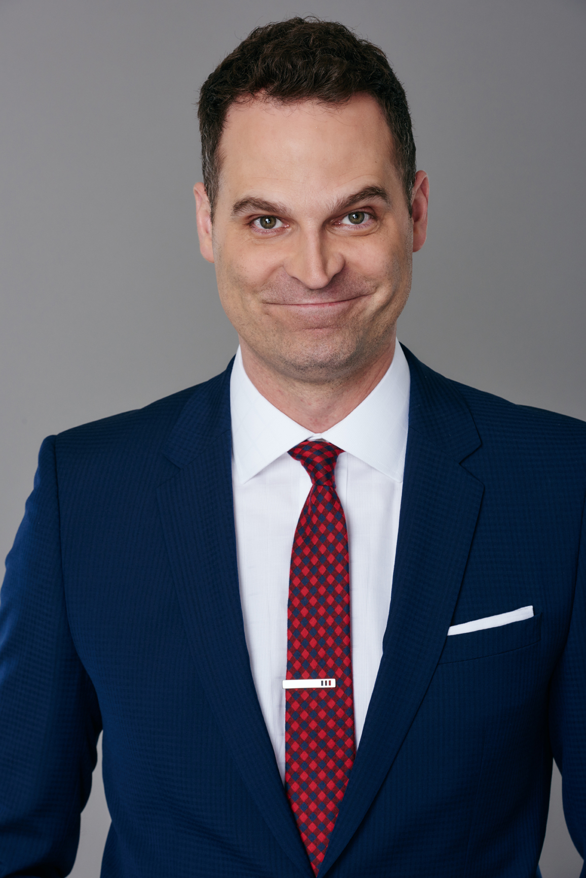 Jay Onrait